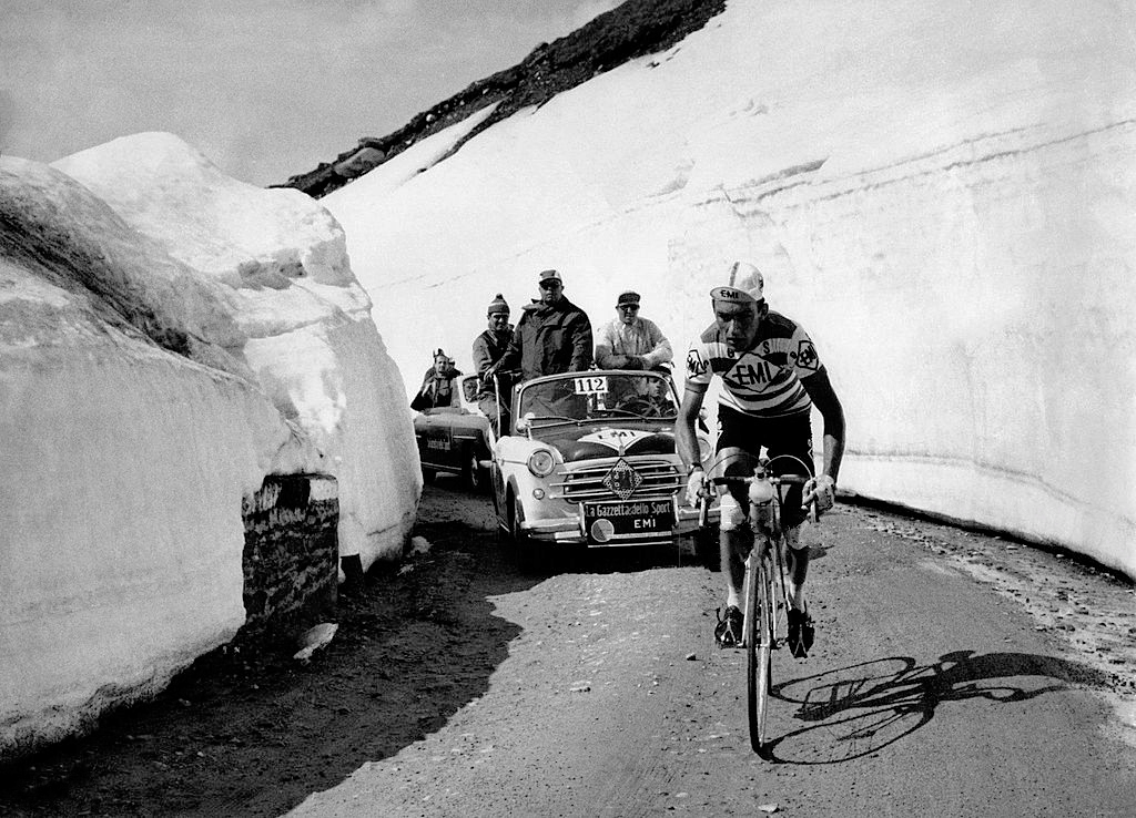 The professional cyclist Charly Gaul, native from Luxembourg, engages a climb in a hairpin turn during the Giro d'Italia, followed by the flagship vehicle; the sportsman recovered the Pink jersey and won the 42nd edition of the Giro with a breakaway on the Mount Piccolo San Bernardo. Italy, 1959